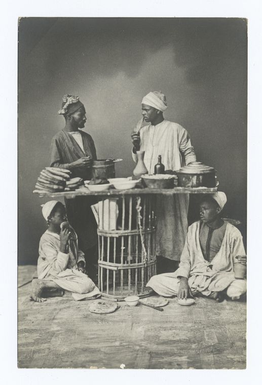 Digital ID: 88451. 1860s-1920s Source: [Photographs and prints of Egypt and Syria.] (more info) Repository: The New York Public Library. Photography Collection, Miriam and Ira D. Wallach Division of Art, Prints and Photographs. See more information about this image and others at NYPL Digital Gallery. Persistent URL: Rights Info: No known copyright restrictions; may be subject to third party rights (for more information, click here)